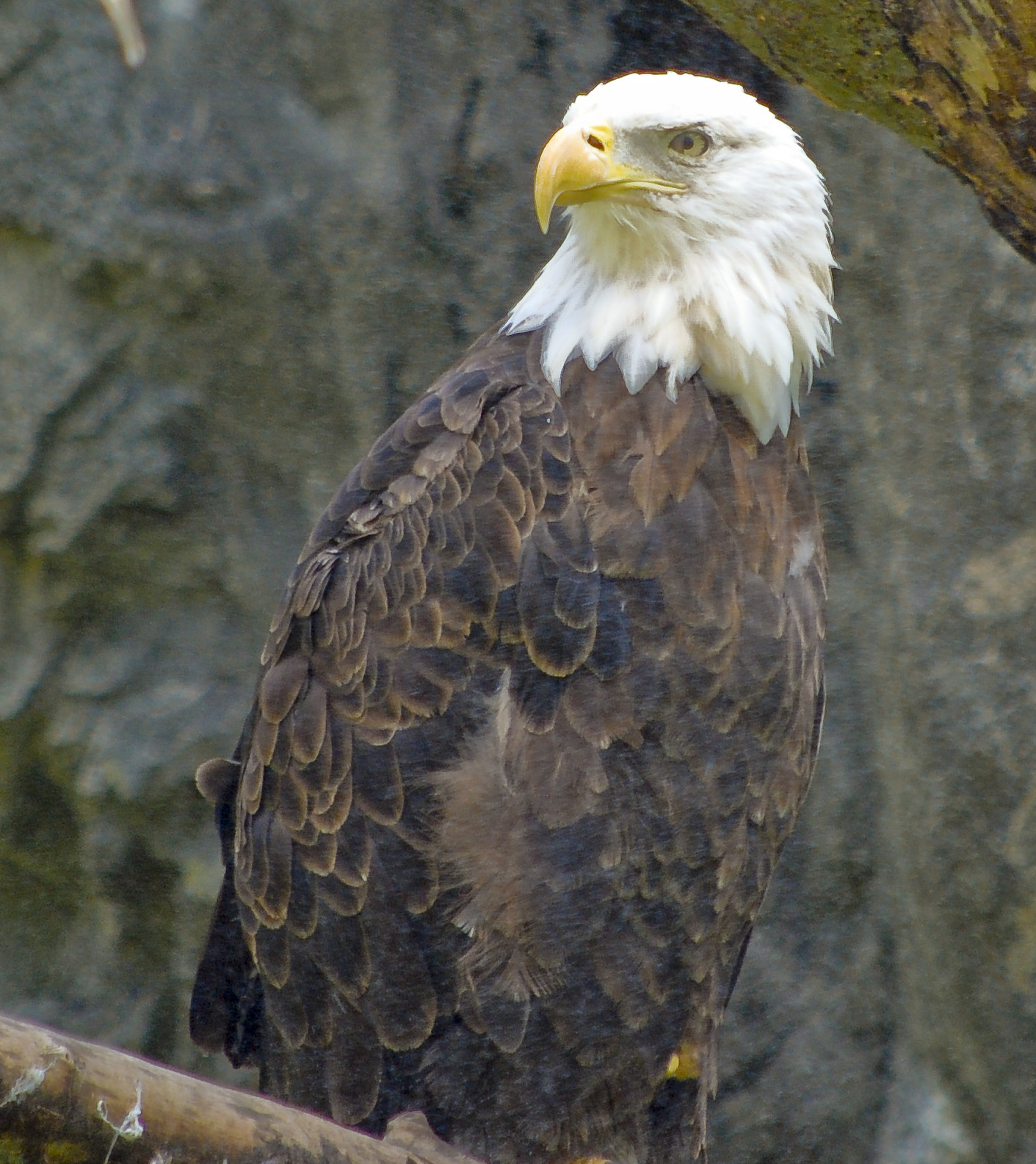 Bald Eagle at the Roger Williams Zoo, Providence, RI.